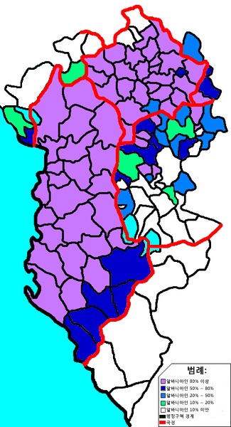 Presence of Albanians in "Greater Albania"